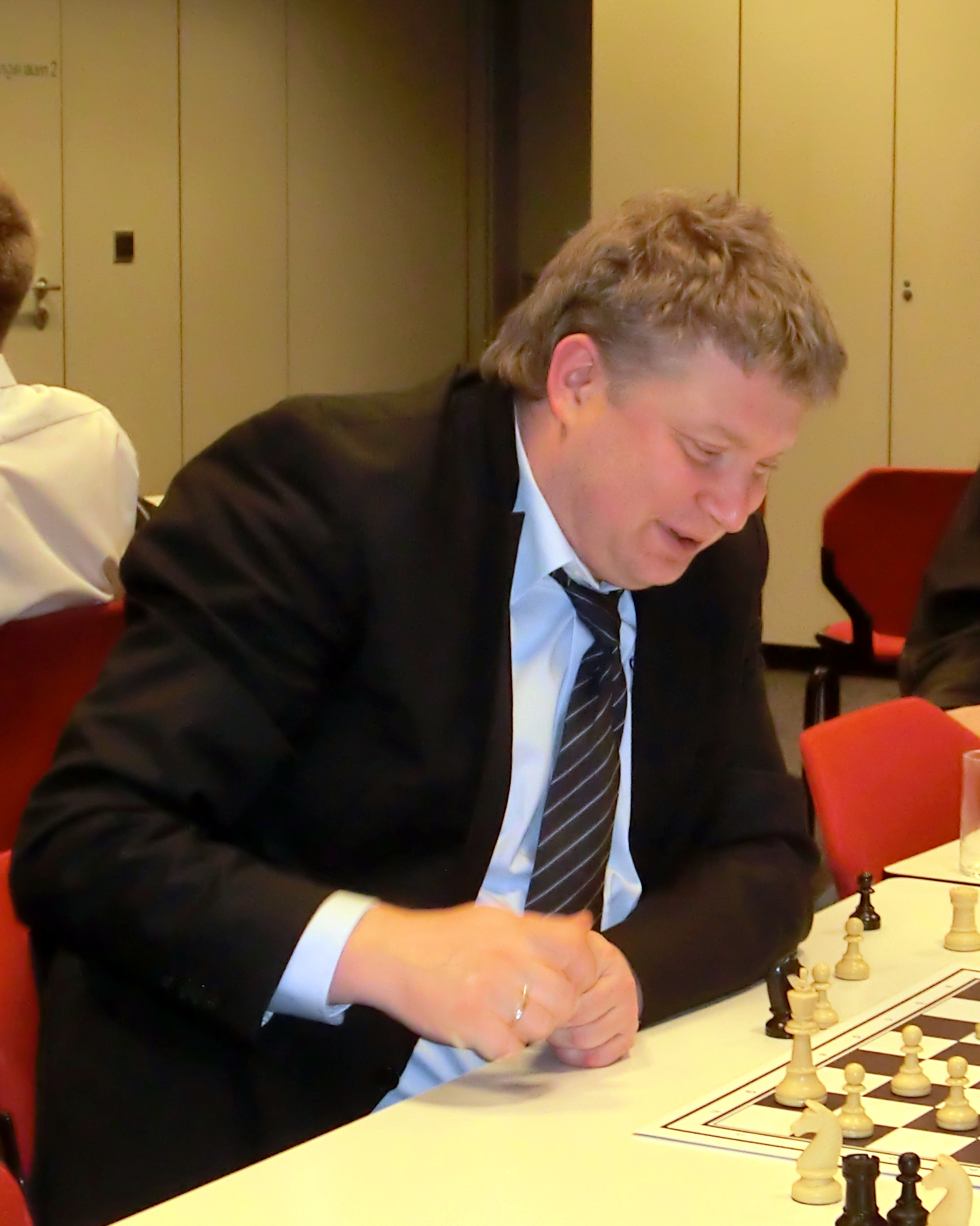 Alexei Shirov, chess grandmaster from Latvia